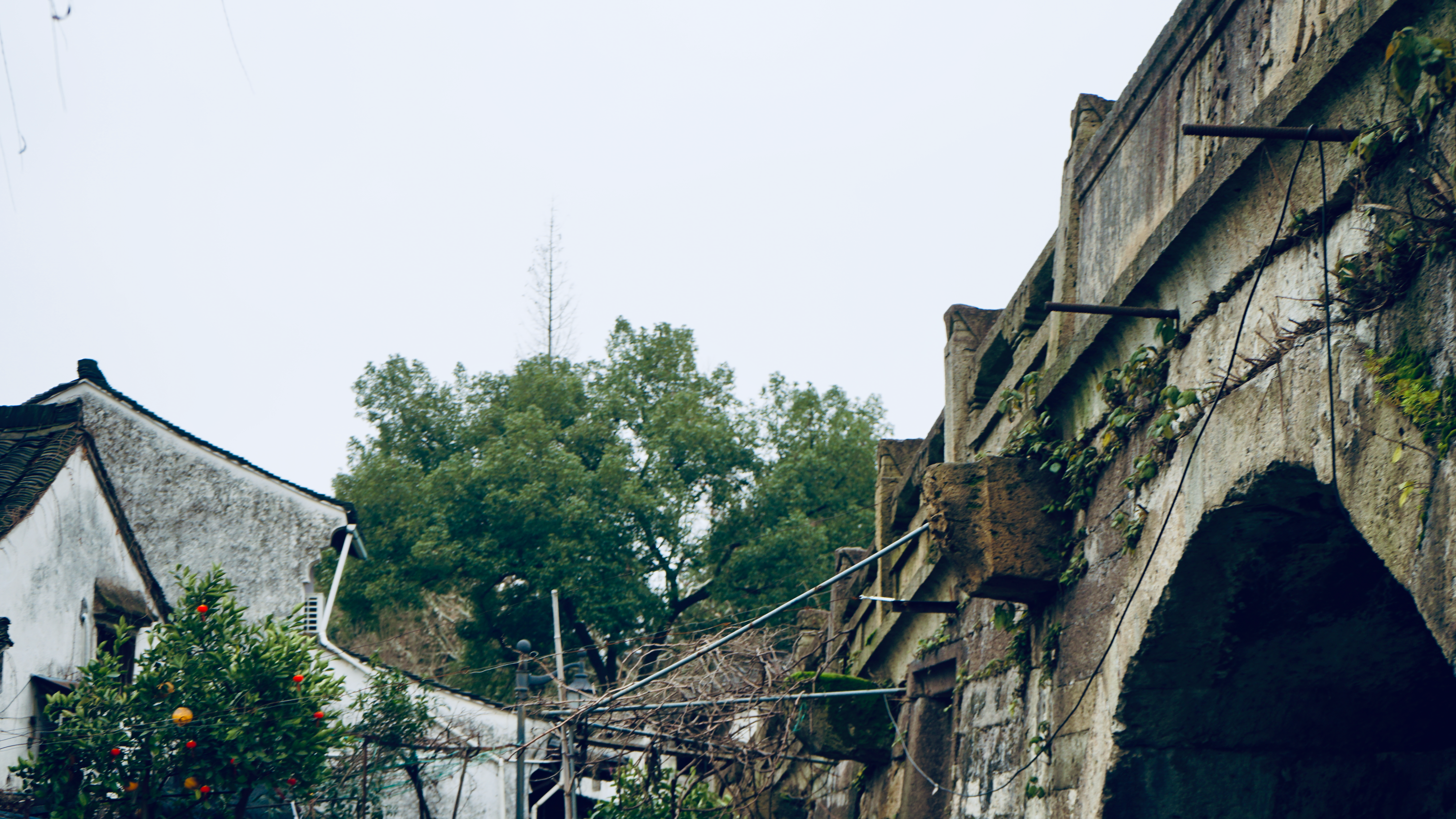 中文（中国大陆）: Guangning Bridge in the east of Old Shaoxing City.